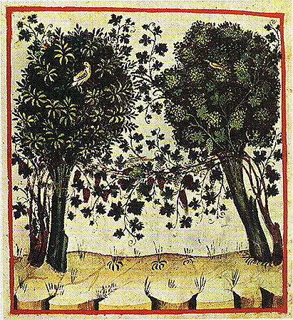 Grapes (Uve) Nature: Warm in the first degree, moist in the second. Optimum: The kind with a thin skin, watery, which protects against poisons. Usefulness: They are nourishing, they purify the system, and they fatten. Dangers: They cause thirst. Neutralization of the Dangers: With sour pomegranates. From the Theatrum of Casanatense